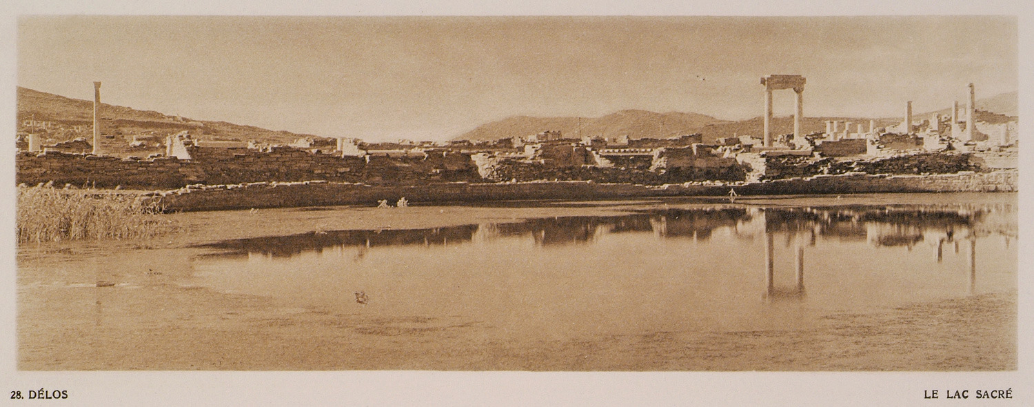 Frédéric Daniel Boissonnas Baud-Bovy. Des Cyclades en Crète au gré du vent, Geneva, Boissonnas & Co, 1919.